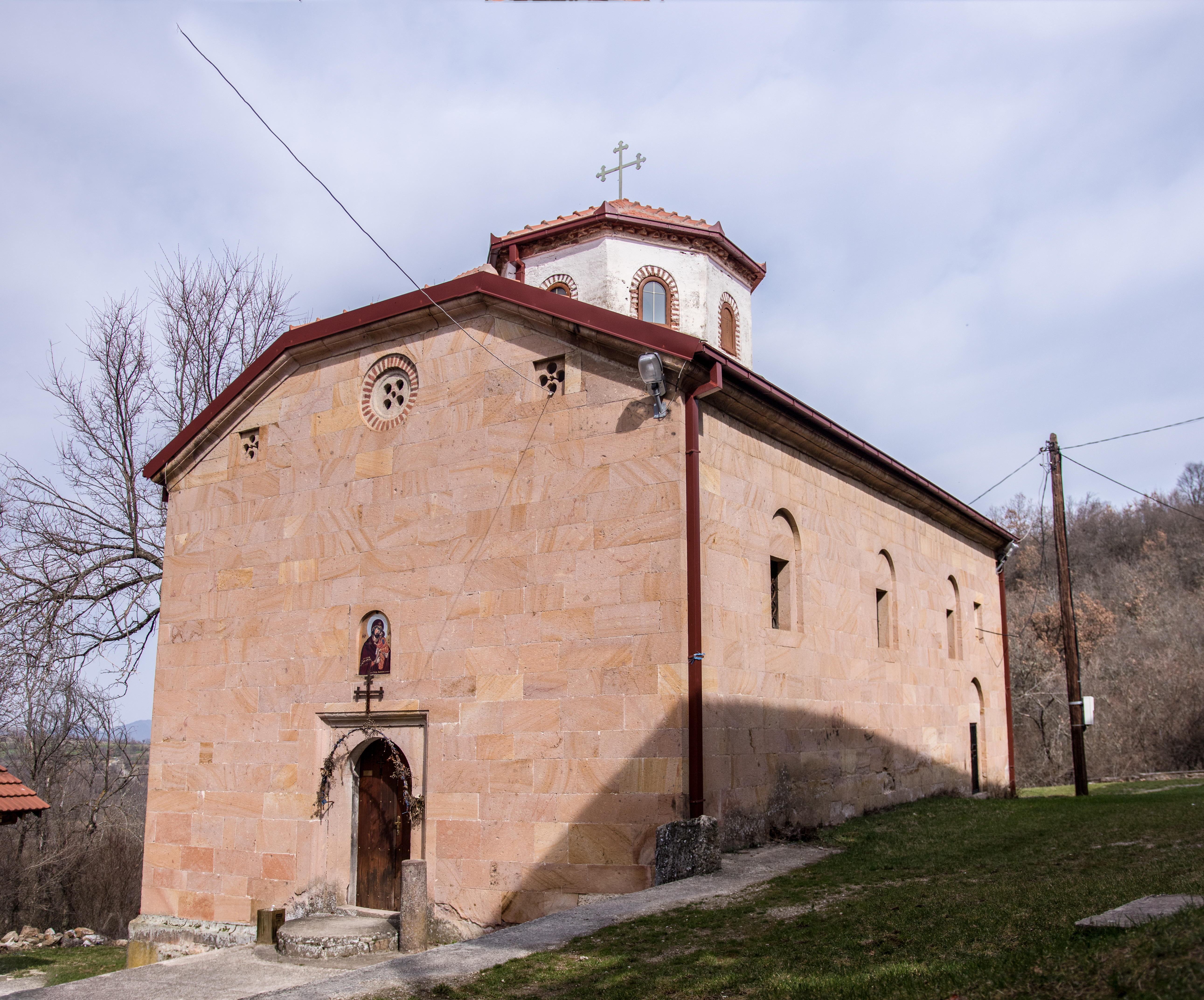 Church of Assumption of the Holy Virgin of the Zabel monastery, Macedonia